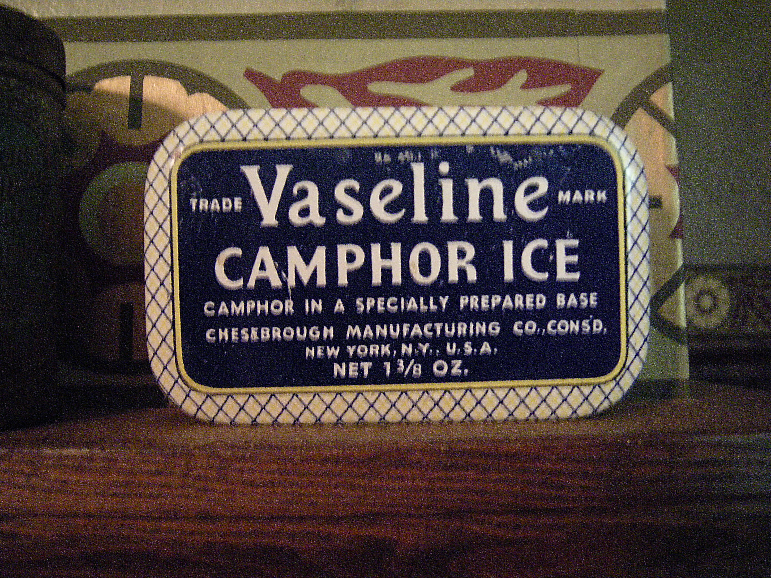 Vaseline Camphor Ice tin, Blackman House Museum, Snohomish, Washington, USA.